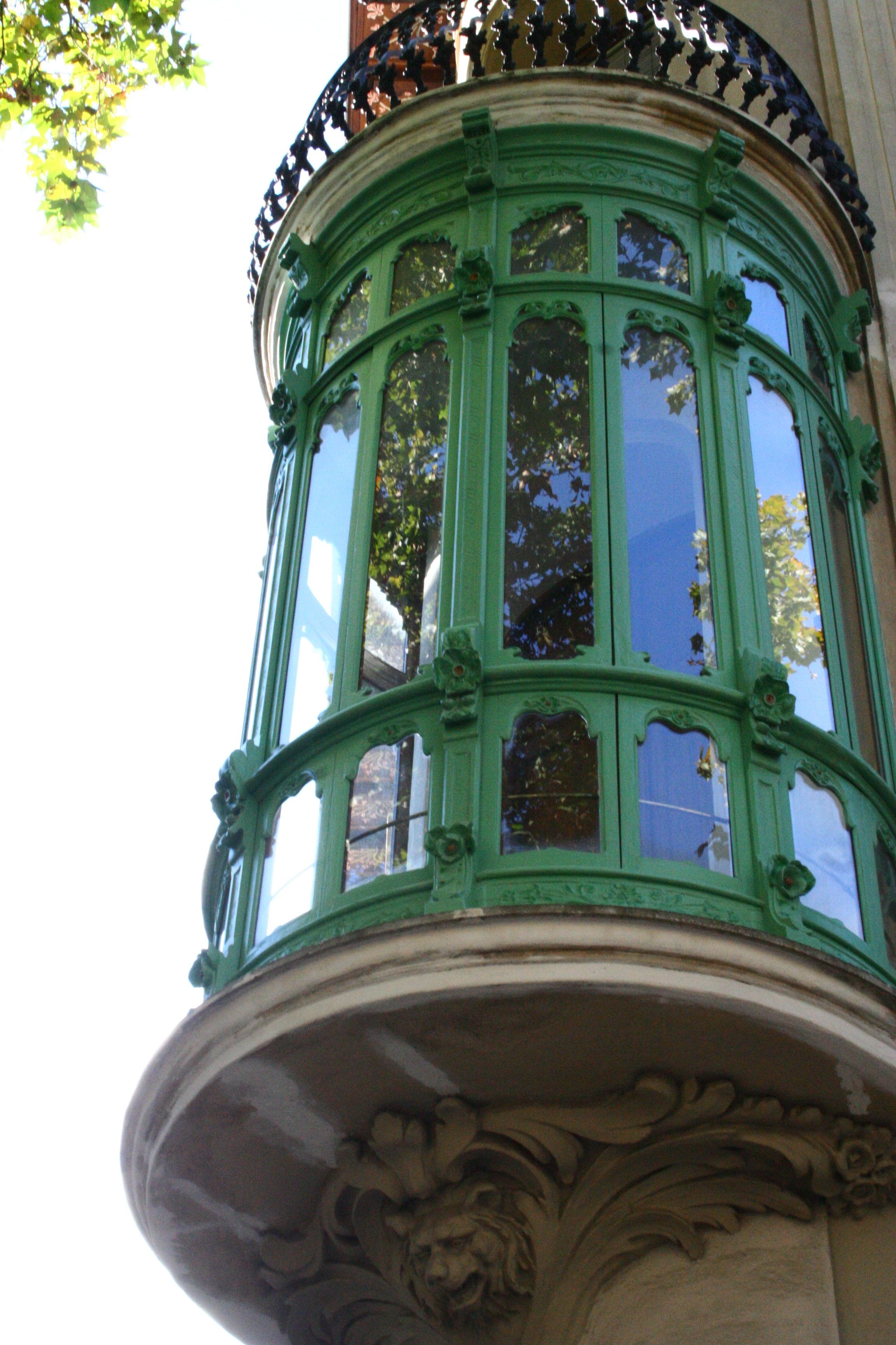 Edificio Botella Bay